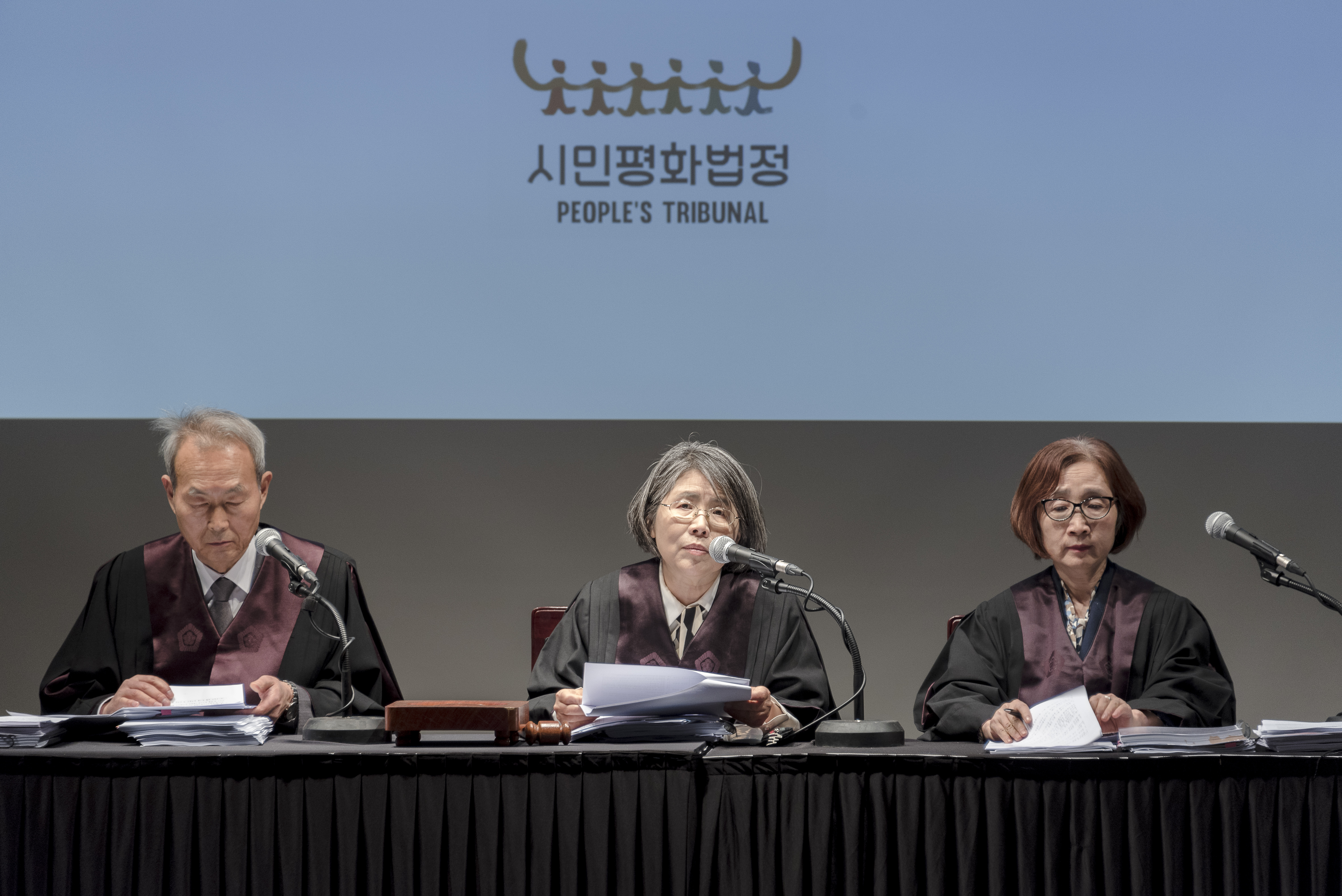 People's Tribunal on War Crimes by South Korean Troops during the Vietnam War to hold by Minbyun and Korea-Vietnam Peace Foundation.